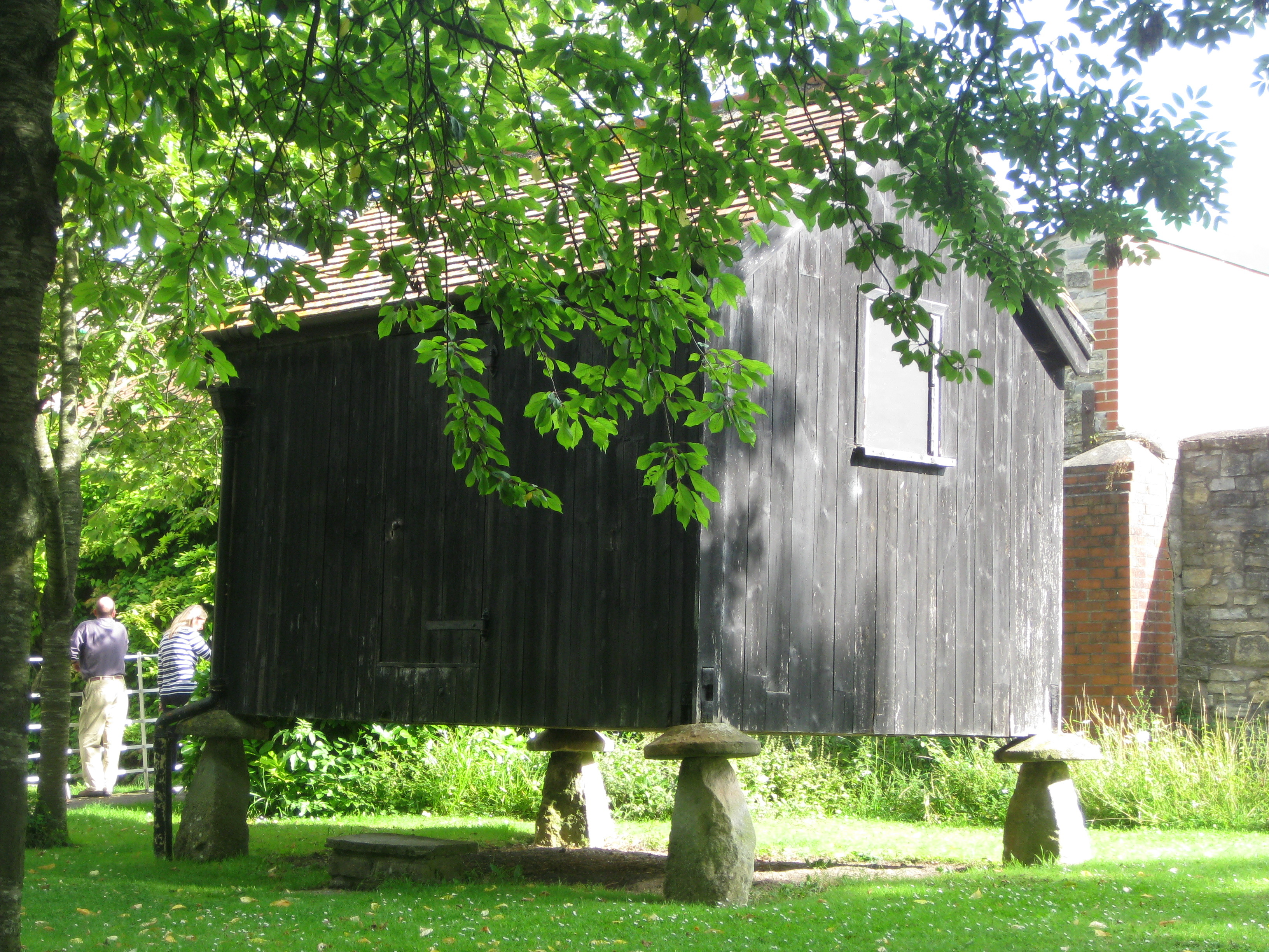 Granary on staddle stones at Somerset Rural Life Museum, Glastonbury, Somerset, England